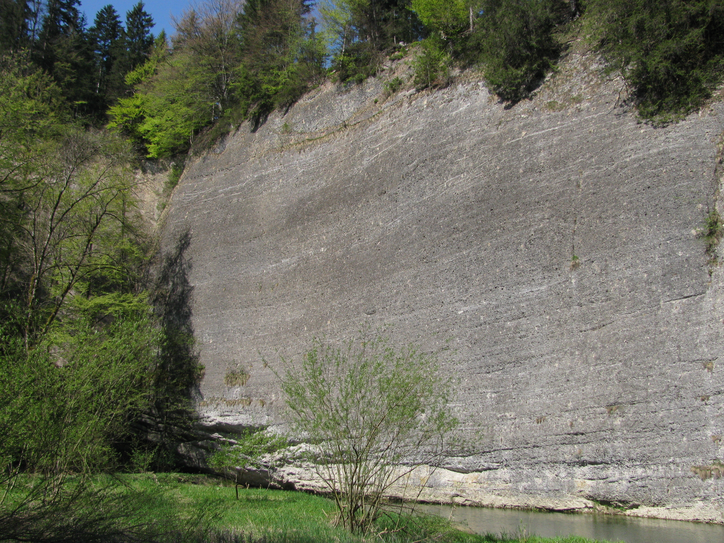 Germany - Bavaria - district Lindau - Maierhöfen/Grünenbach: protected area "Eistobel"